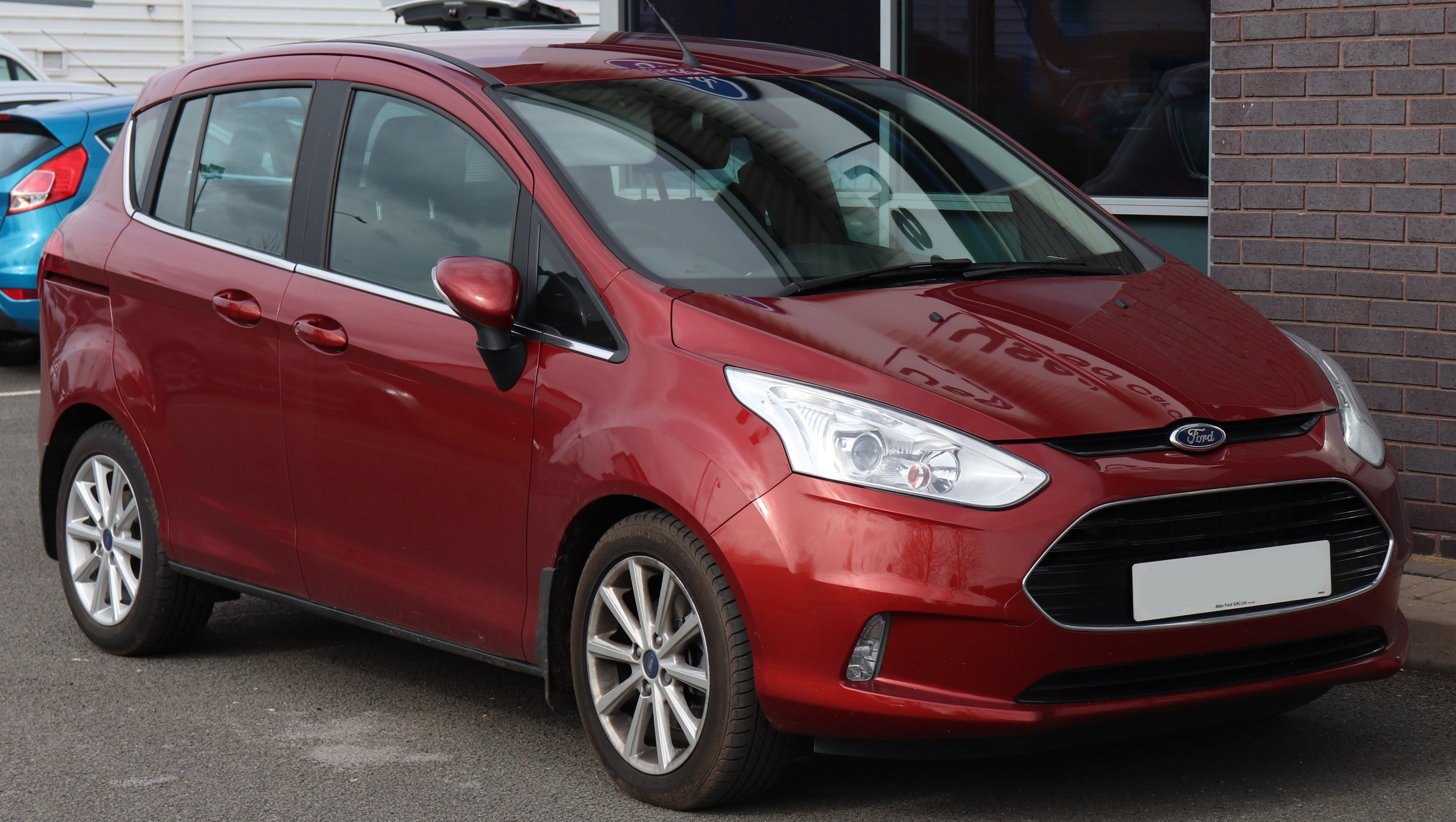 2016 Ford B-Max Titanium Turbo 1.0 Front Taken in Leamington Spa